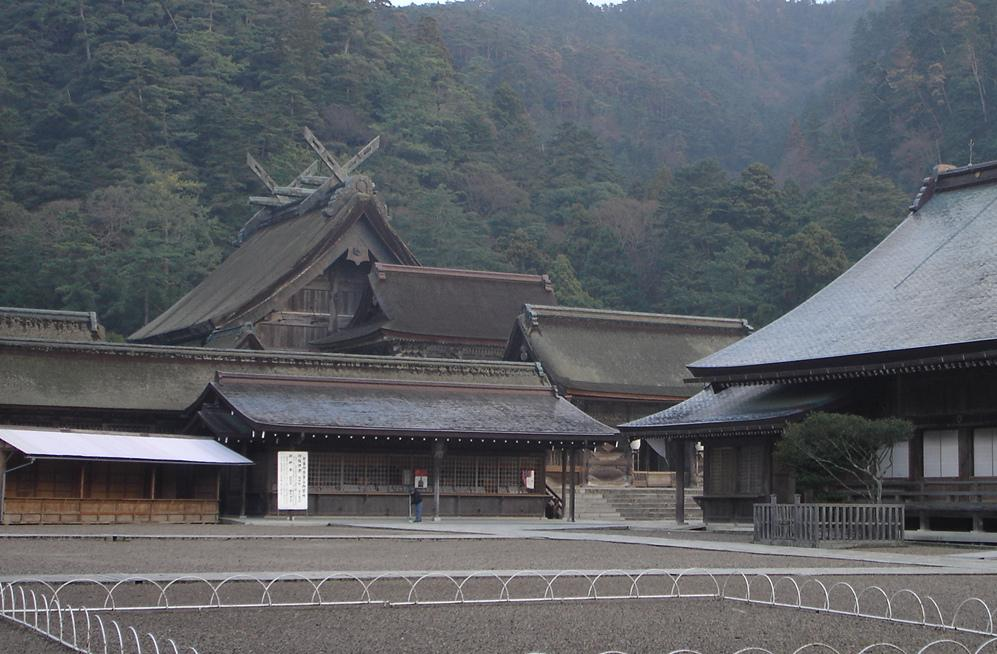 the main shrine of Izumo Taisha（出雲大社本殿）